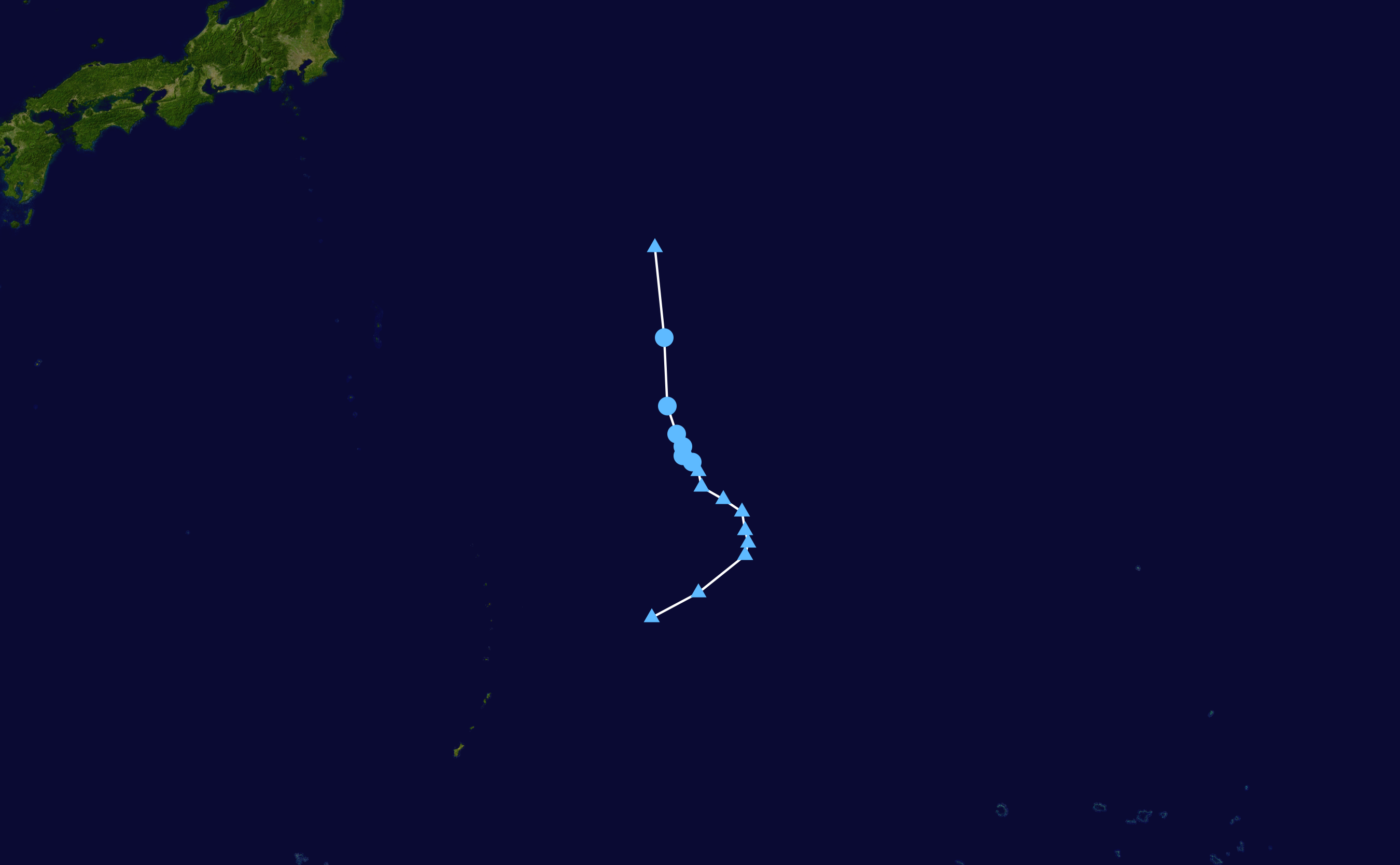 Tropical Storm Rumbia (2006) track. Uses the color scheme from the Saffir-Simpson Hurricane Scale.